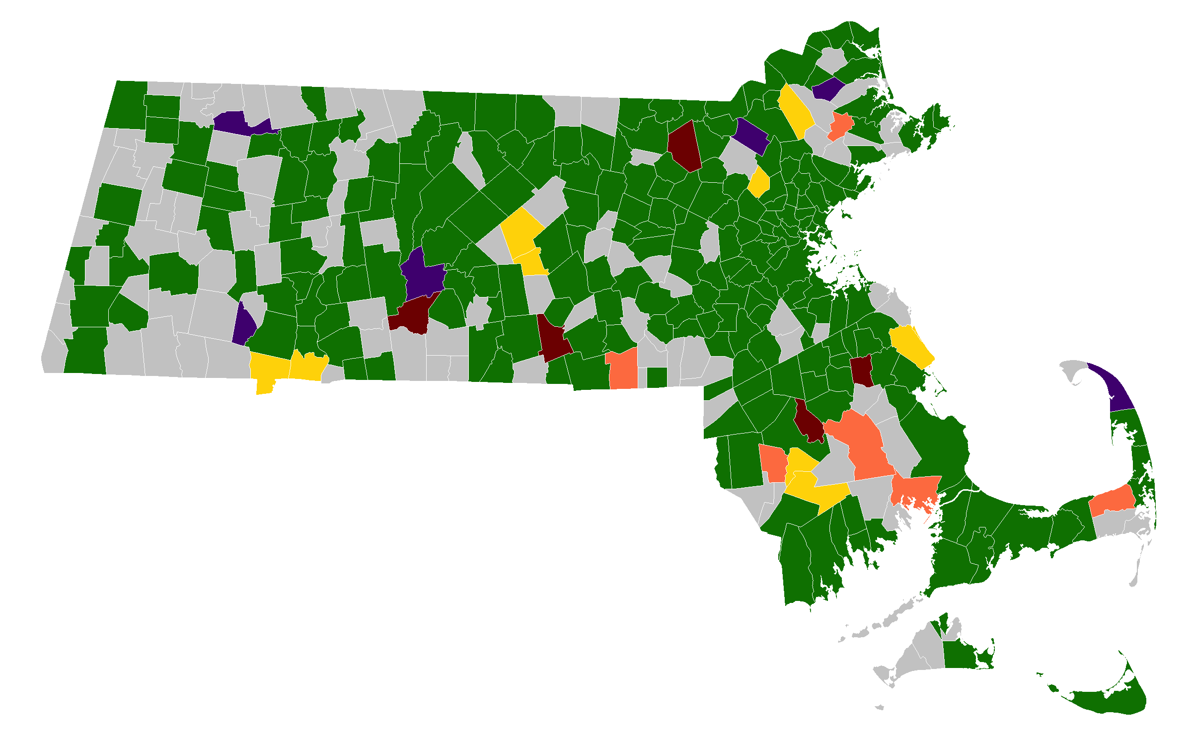 This File Shows the Results of the Green-Rainbow Party Presidential Primary